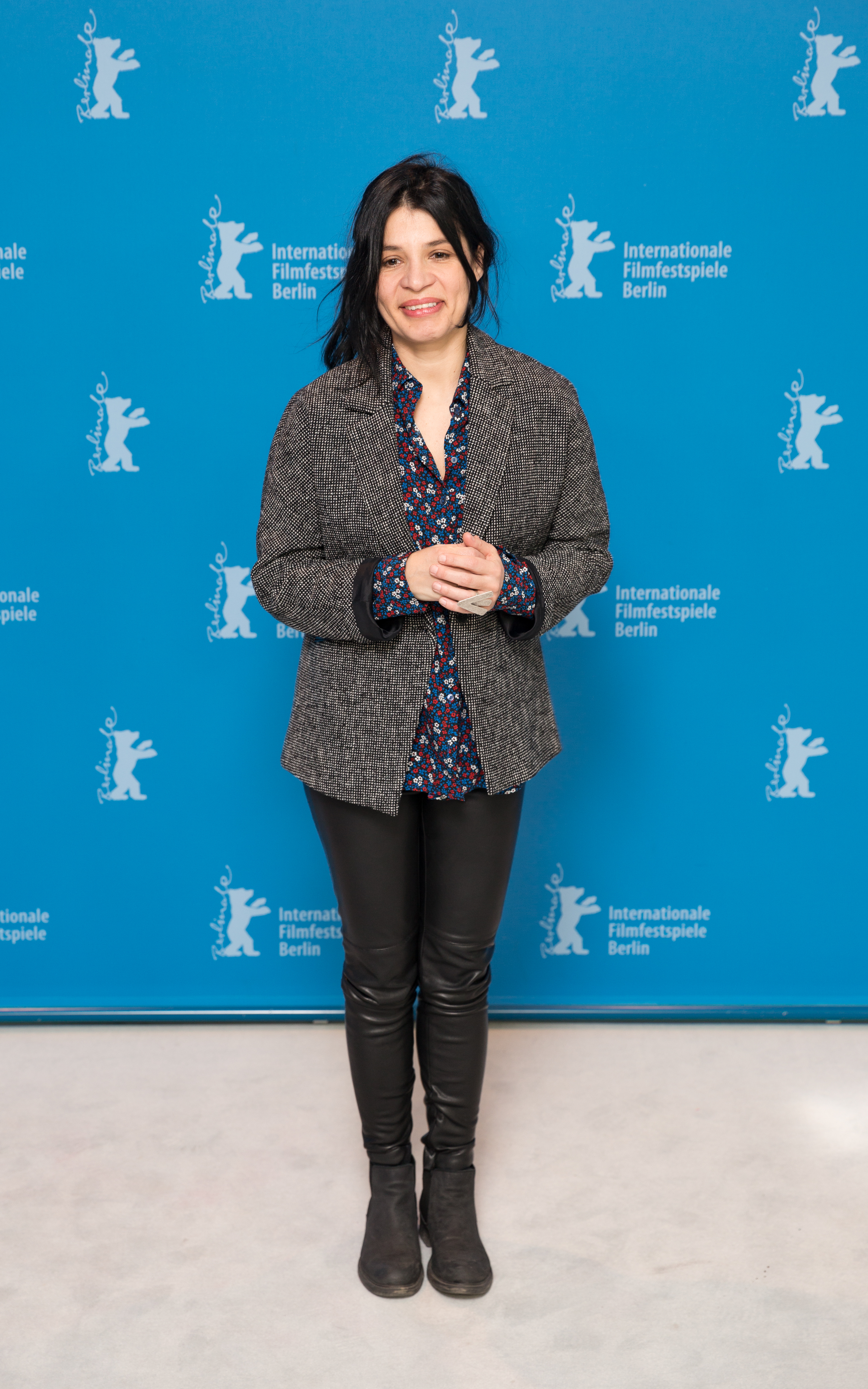 Director Teona Strugar Mitevska at the presentation of macedonian When the Day Had no Name at the Berlinale 2017